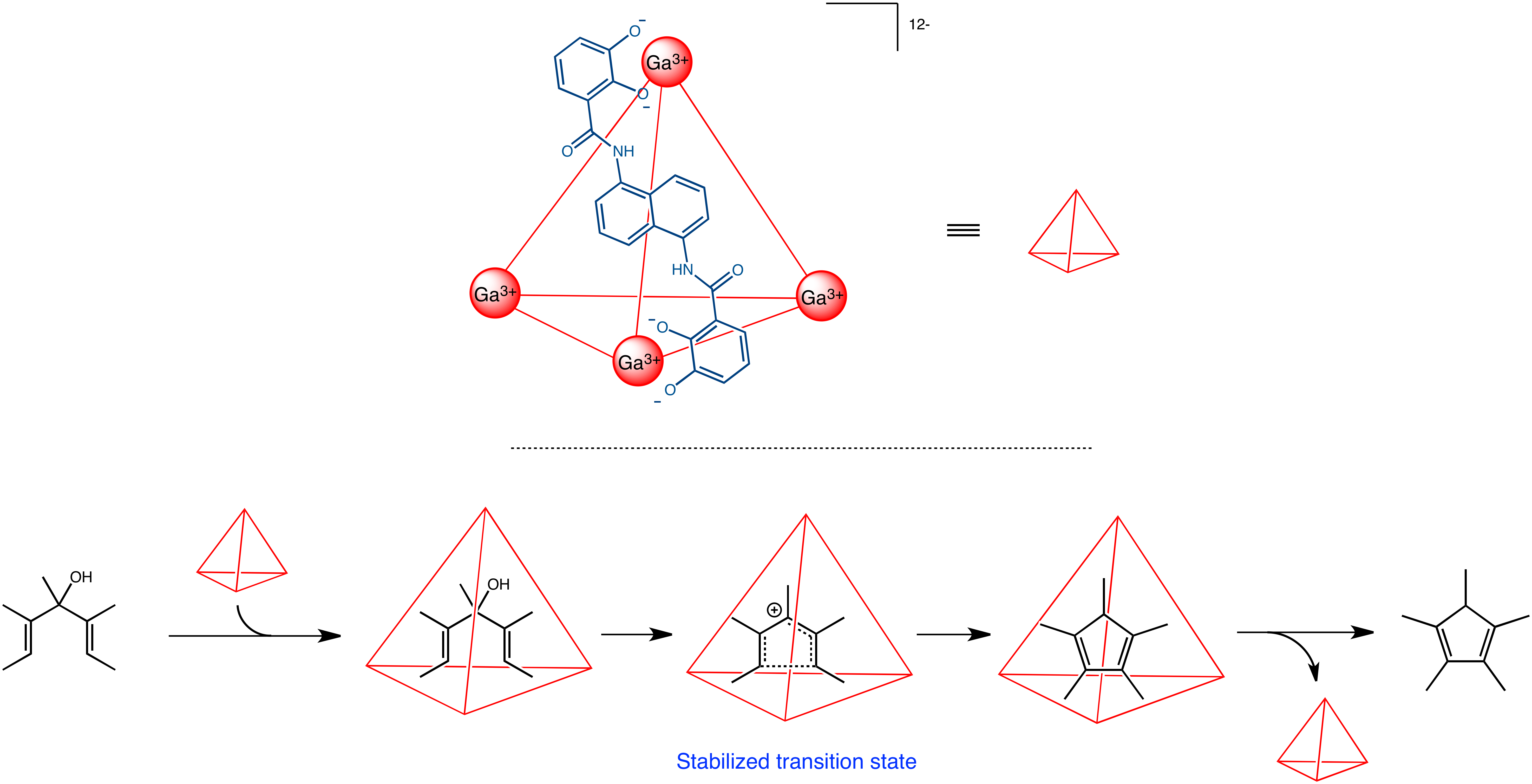 A self-assembly gallium catalyst developed by Ken Raymond accelerates Nazarov cyclization by stabilizing the cationic transition state.